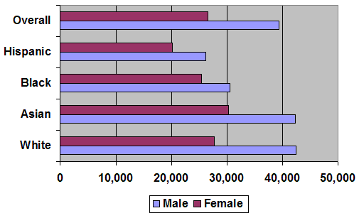 This graph was created using 2005 US Census Bureau data, released for 2006, taken from here.